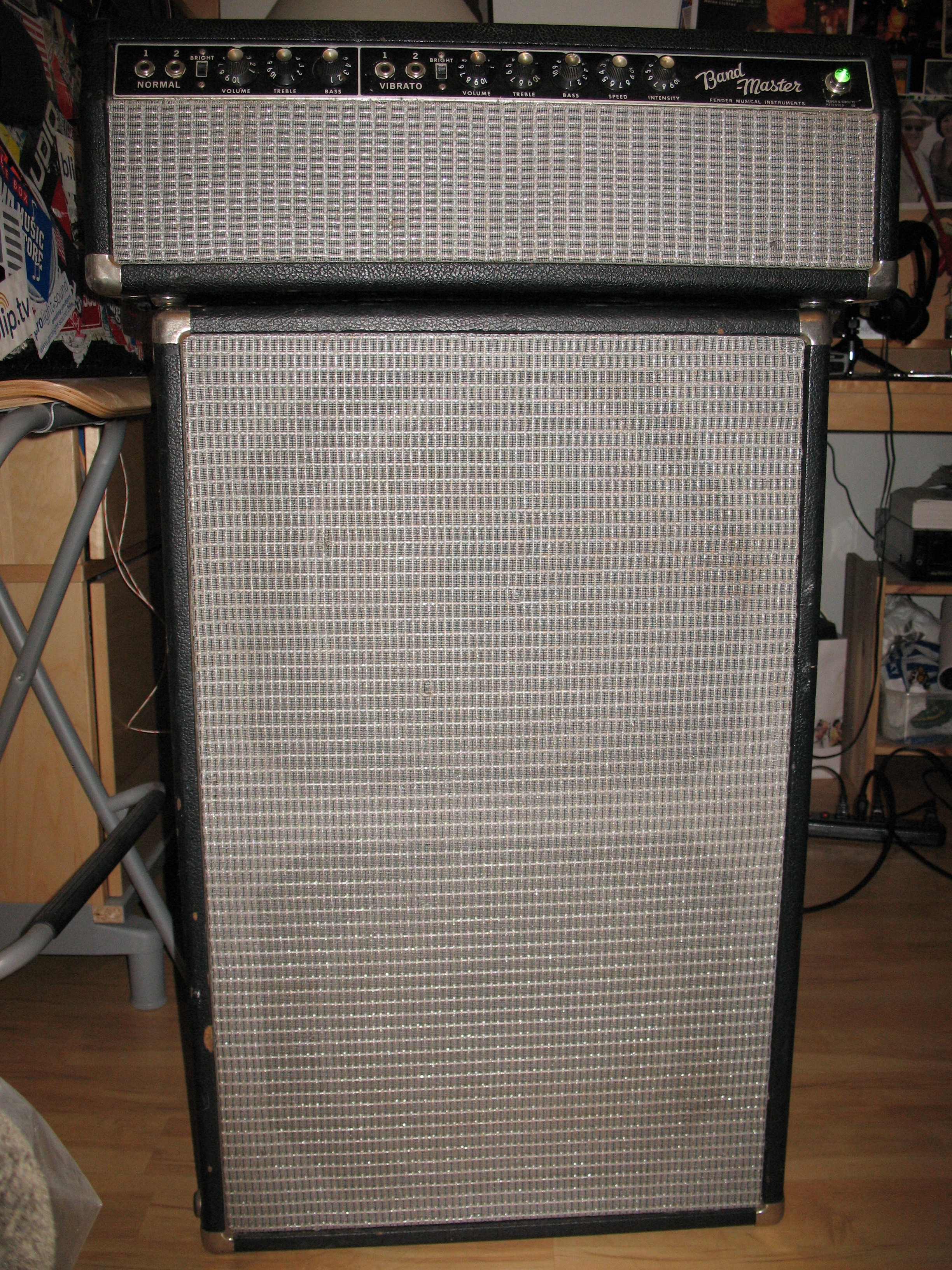 1965 Fender Bandmaster piggyback amplifier belonging to Jon Hammond with 2 x 12" factory Fender Jensen speakers stock. Hammond uses it currently with his Hammond XK-1 Organ and Excelsior Accordion with Sennheiser pickups.